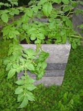 Potato-Tower